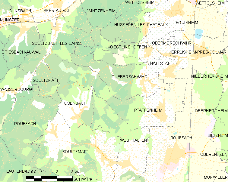 Map of French municipality